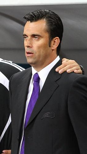 Koldo coaching the Andorra national football team.